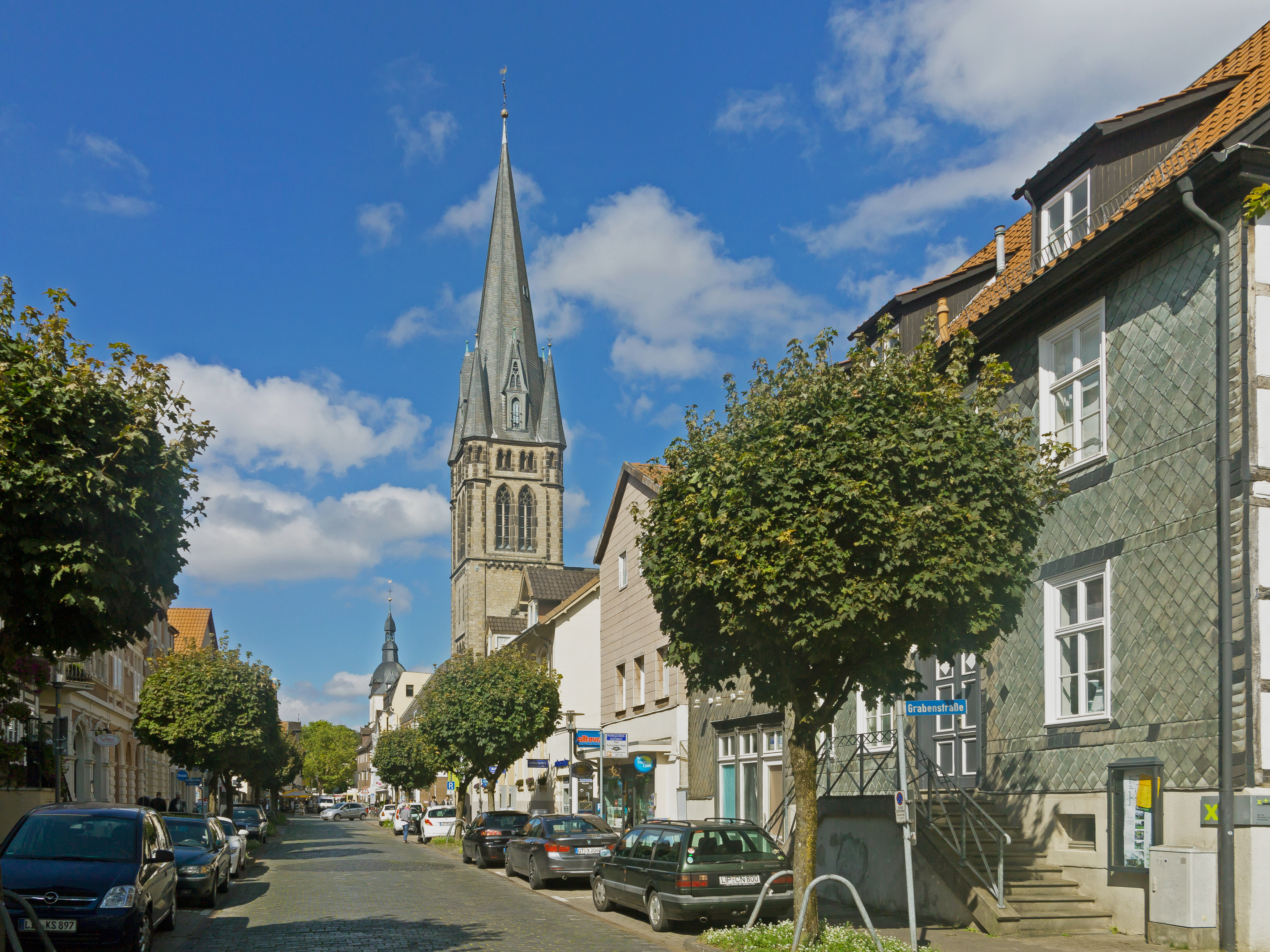 Detmold, straatzicht church (the Martin Luther church) in the street This is a photograph of an architectural monument., no. 201